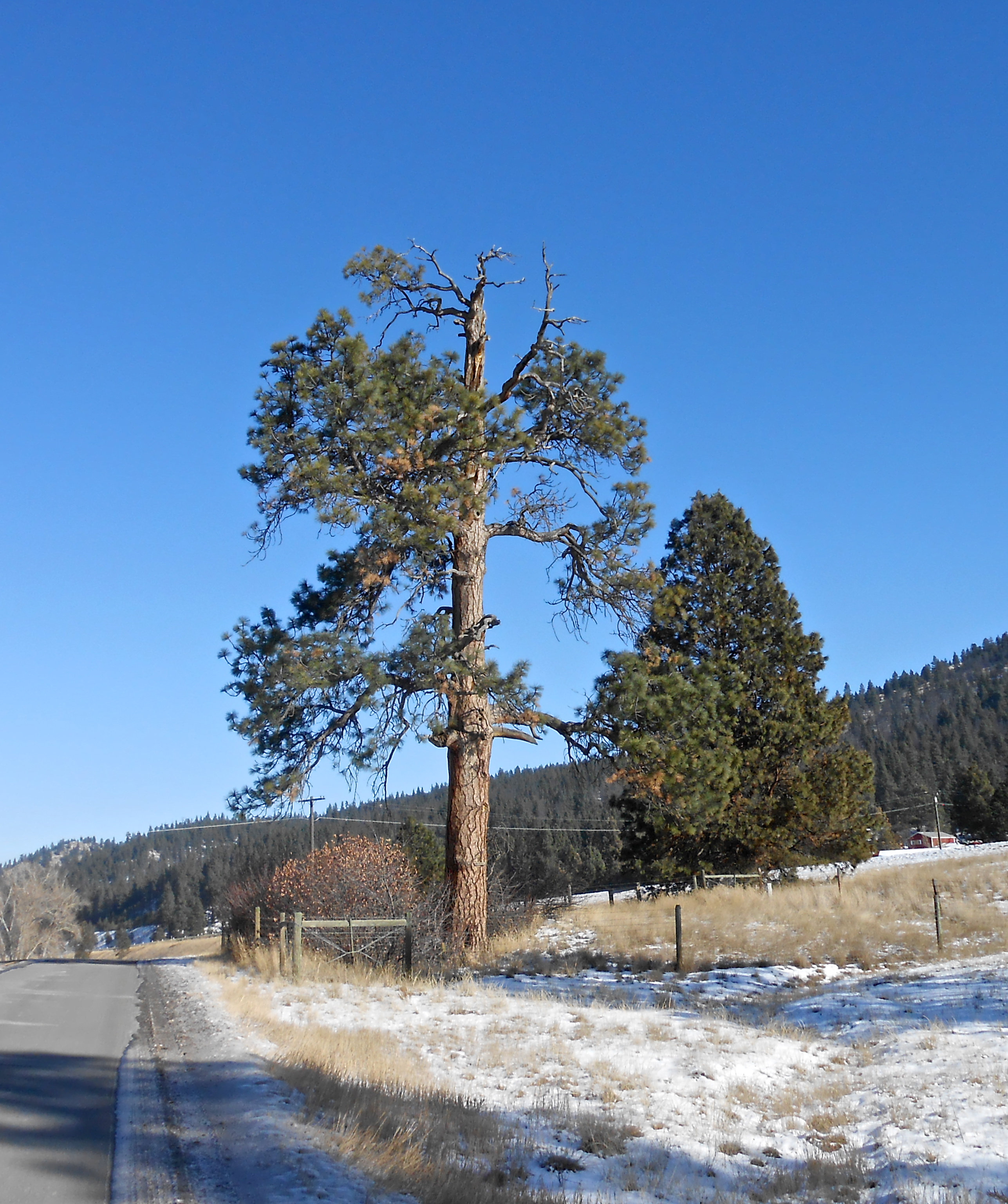 Ponderosa pine tree, alleged to be a "hanging tree" in Jefferson County, Montana, near Clancy. Visible from Interstate -15. Tree long rumored locally to be the site of vigilante hangings in the territorial period, though there is insufficient documentary evidence to prove or disprove this legend. Fence built at base of the tree to deter vandalism